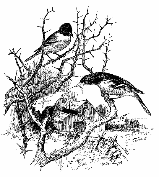 Illustration of orioles gathering threads for their nest by Charles Copeland, included in the book Ways of the Wood Folk by American naturalist and author William J. Long.